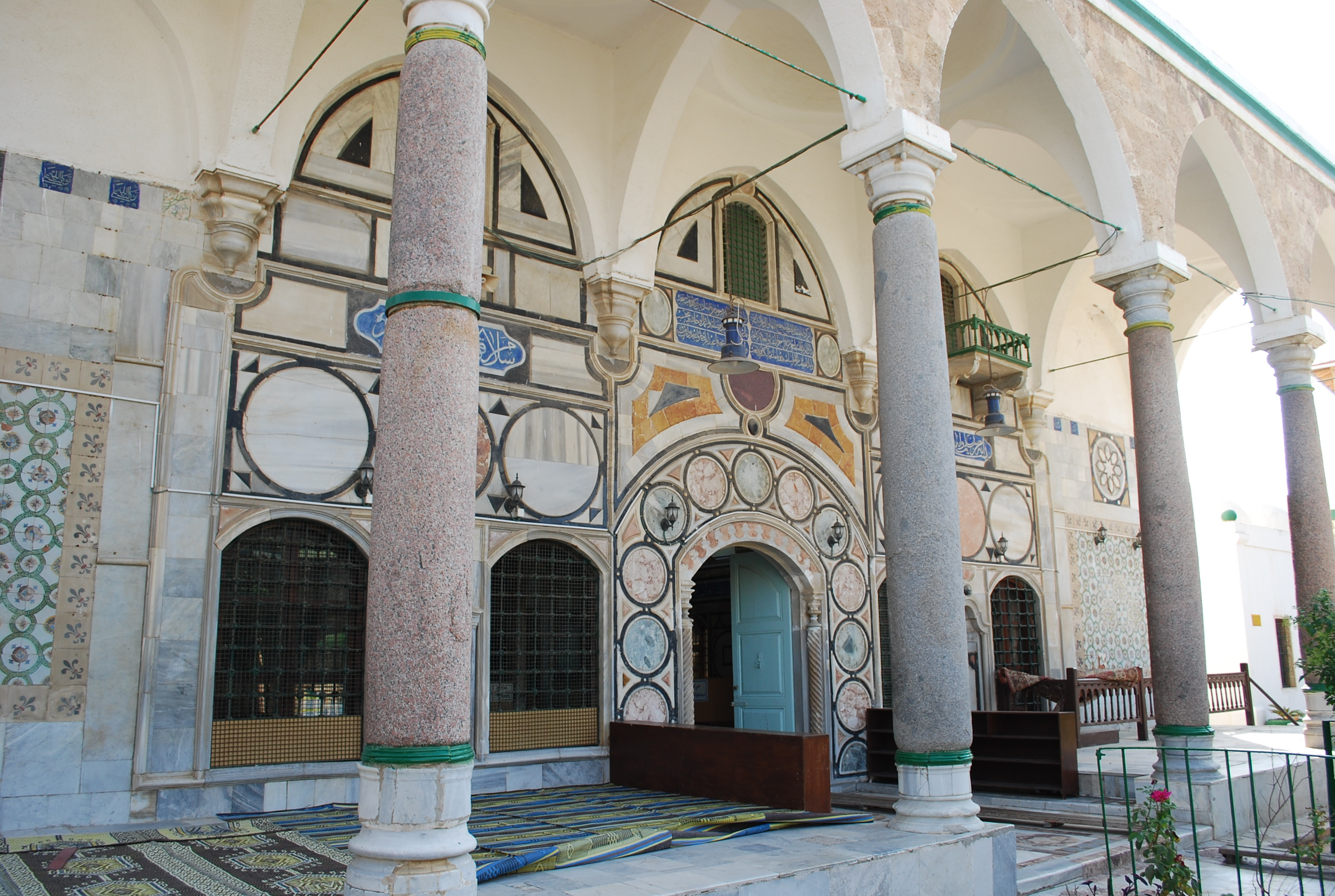 The beautiful walls of the Al Jazzar Mosque Acre